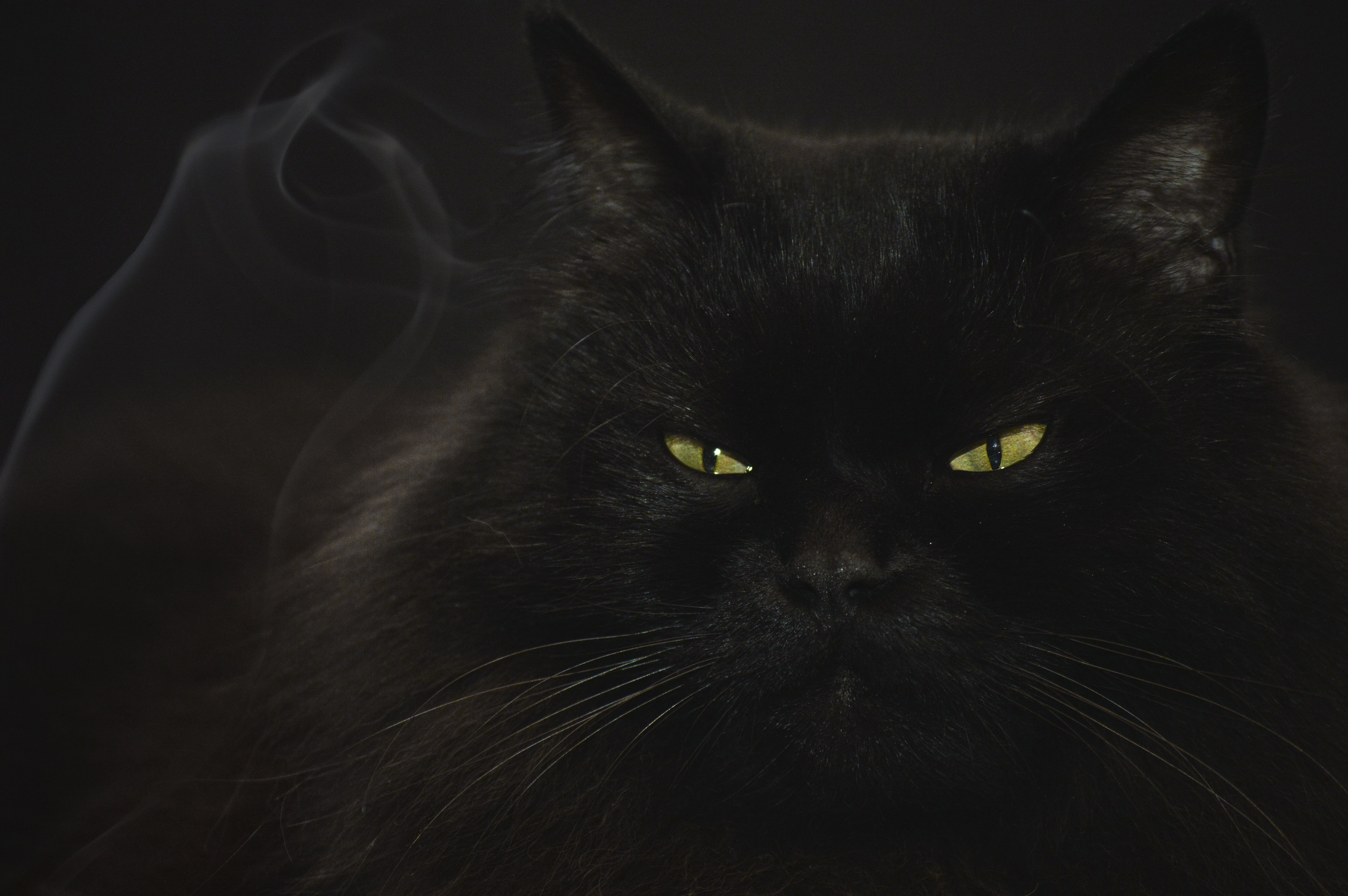 חתול שחור - black kat